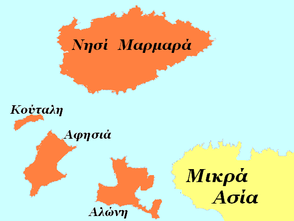 Marmara islands